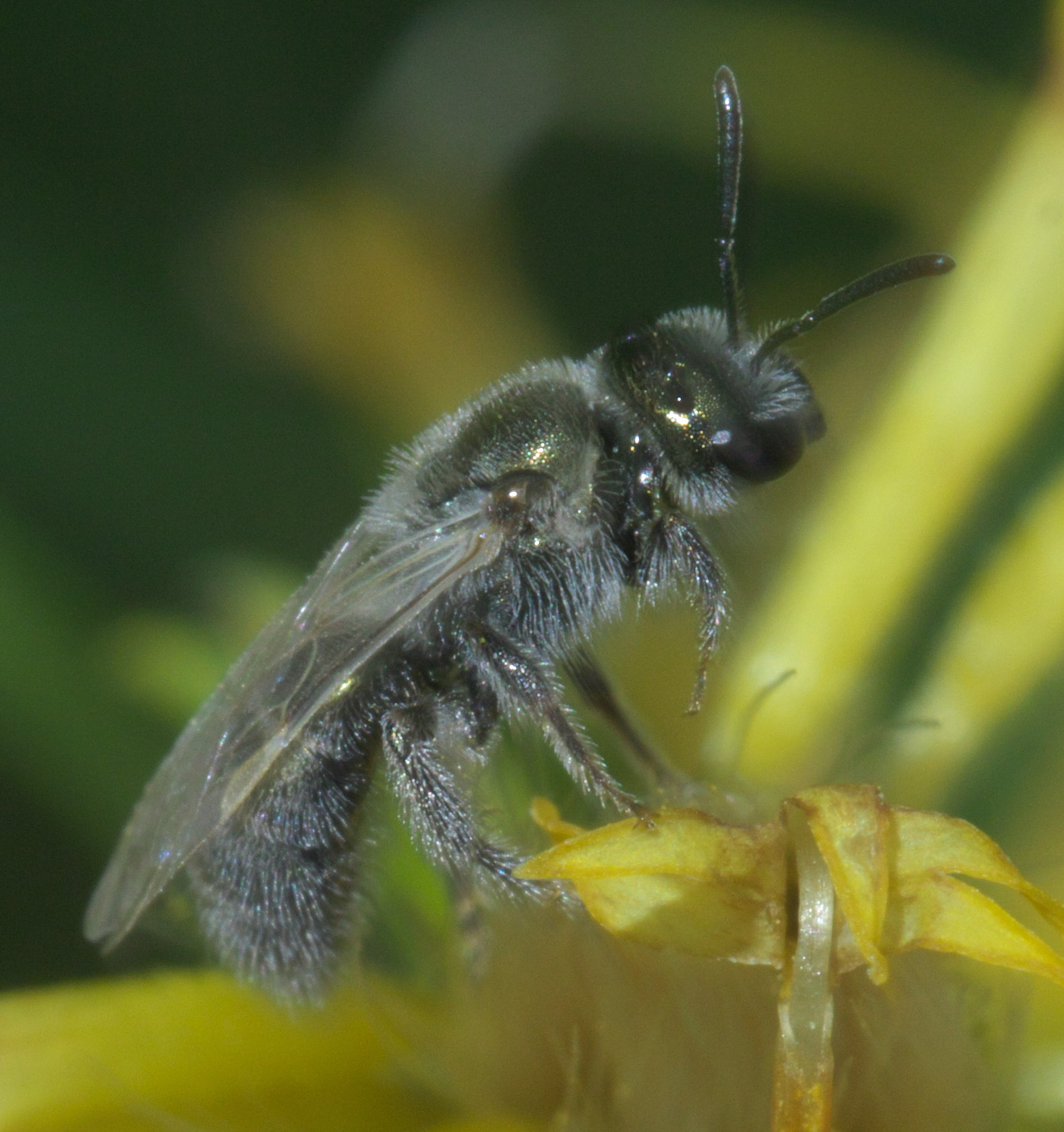 Lasioglossum semicaeruleum, Family: Sweat Bees, Female. , Size: 5.5 mm, ID Confidence: 98